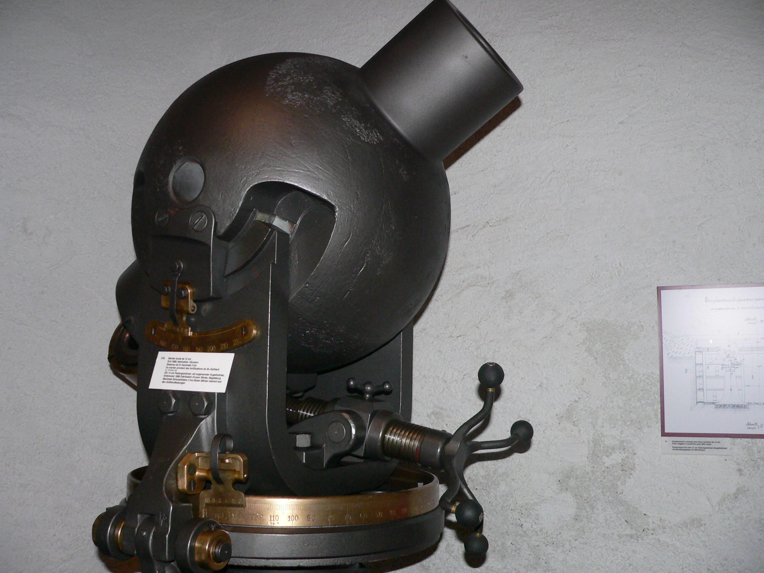 piece on display at the Musée de l'Artillerie, Morges castel, Switzerland